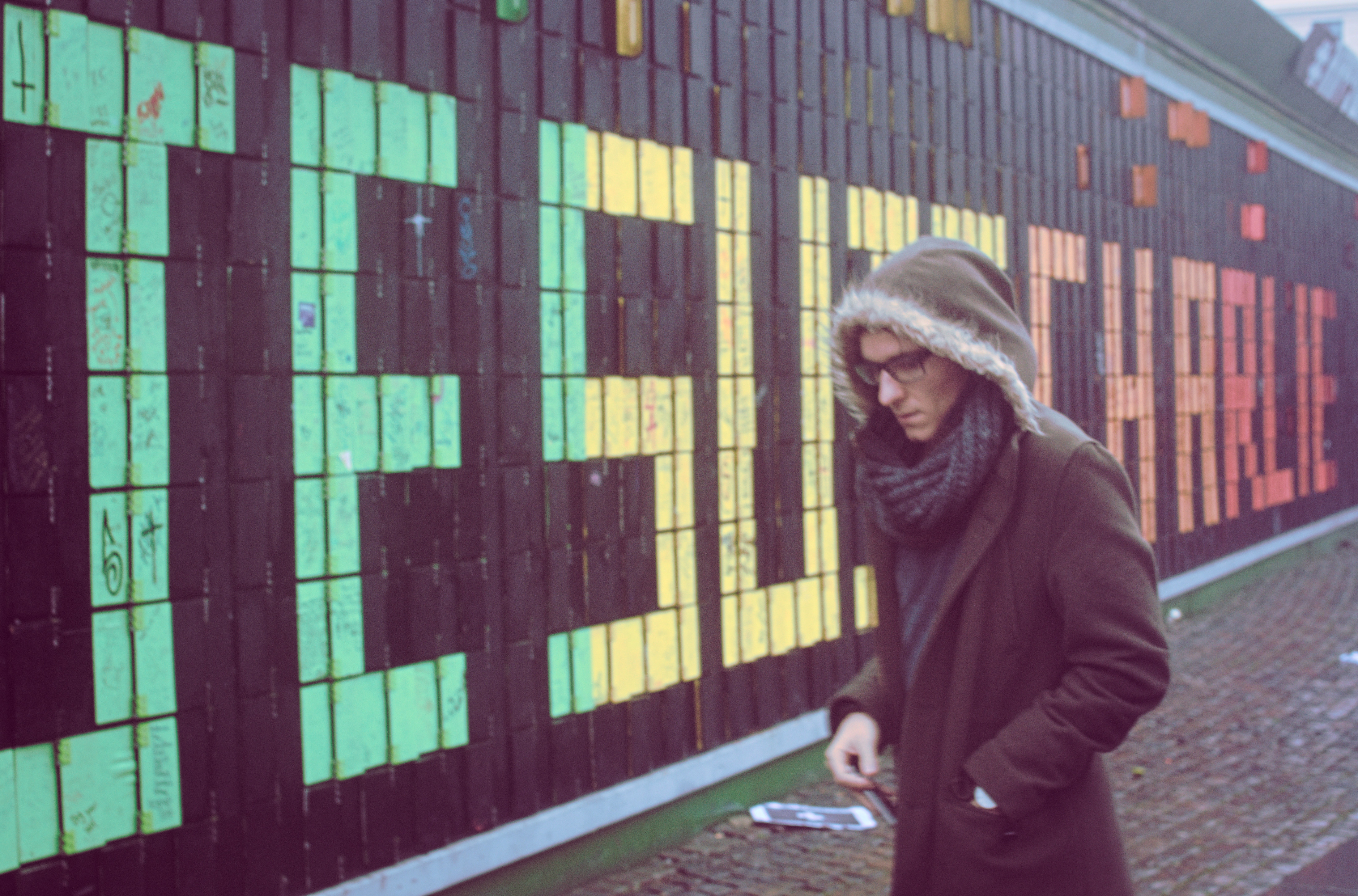 Copenhagen rally in support of the victims of the 2015 Charlie Hebdo shooting.